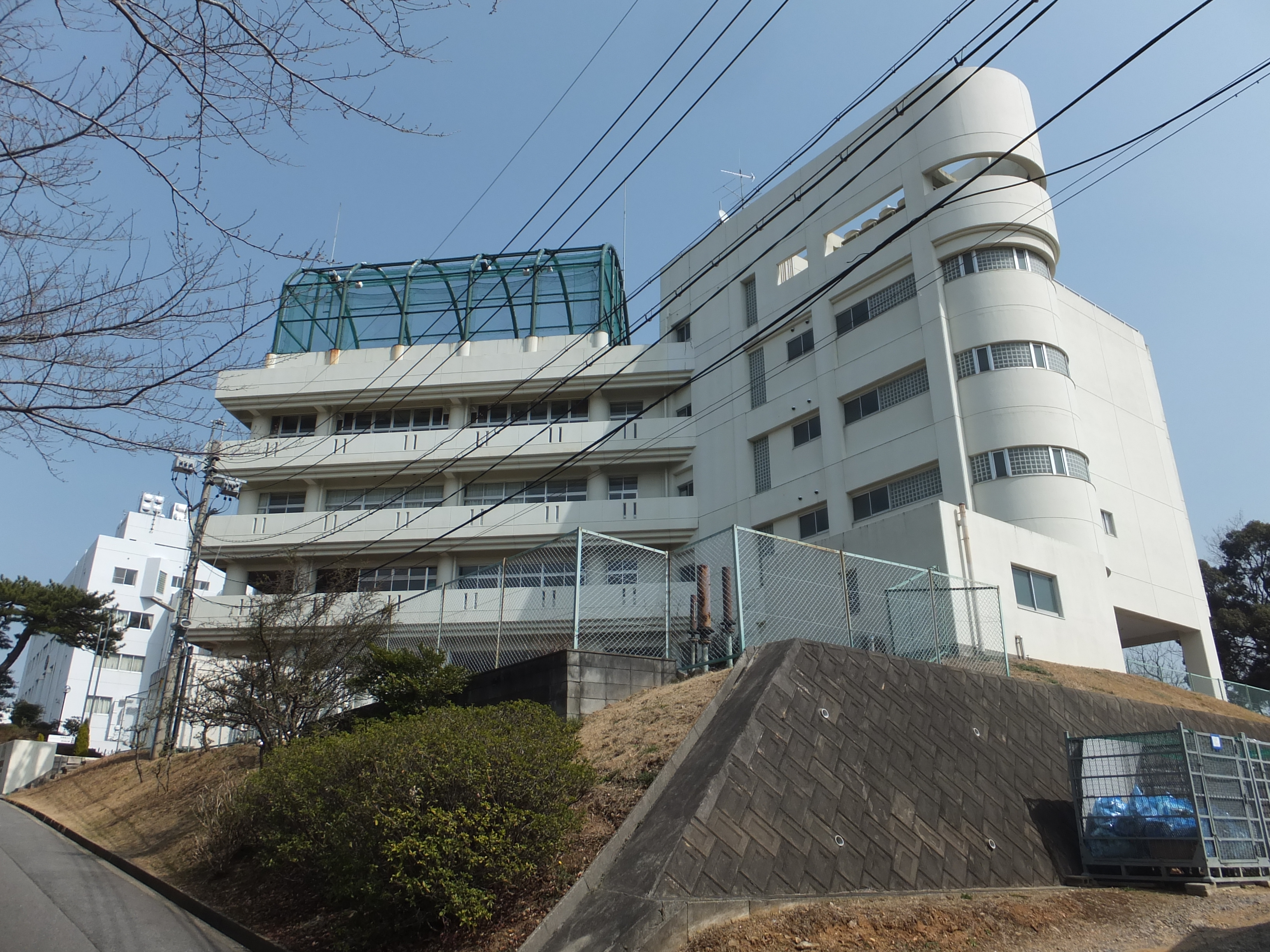 Aichi Sangyo University Mikawa Junior High School (愛知産業大学三河中学校), located at Harayama 12-10, Oka-cho, Okazaki, Aichi, Japan